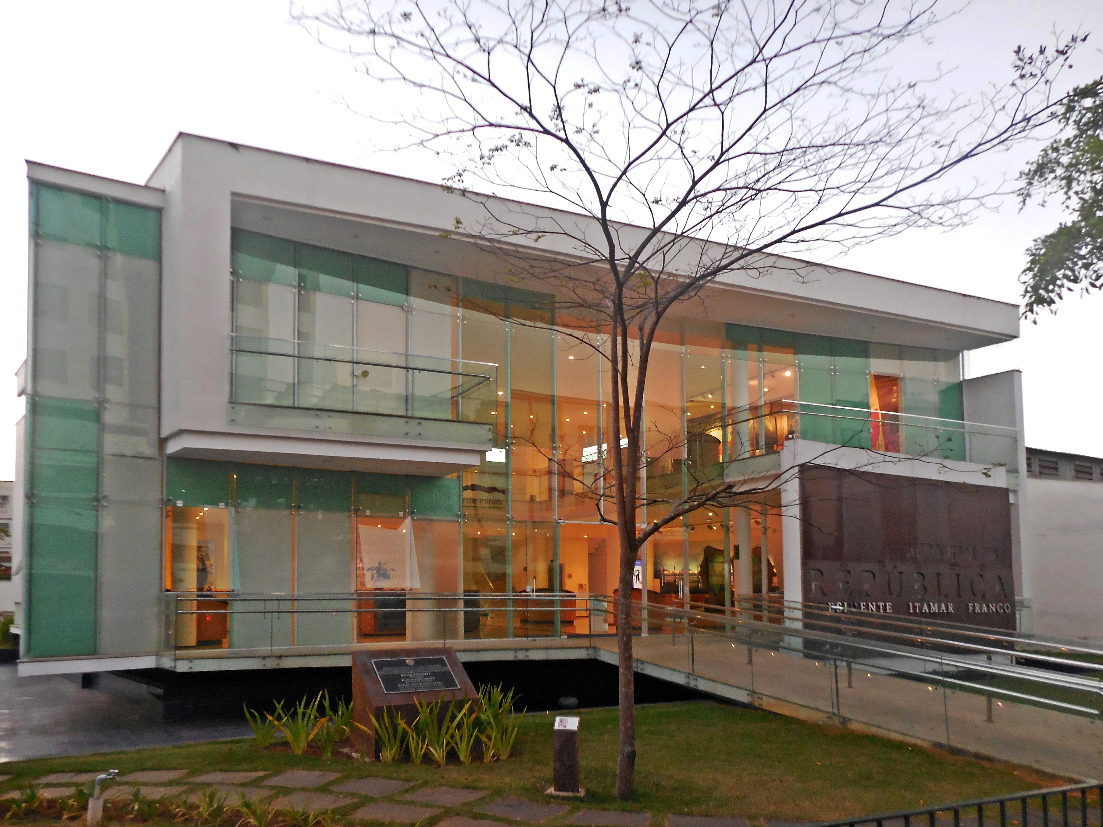 Facade of the Museum of the Republic Presidente Itamar Franco, in Juiz de Fora, Minas Gerais, Brazil.